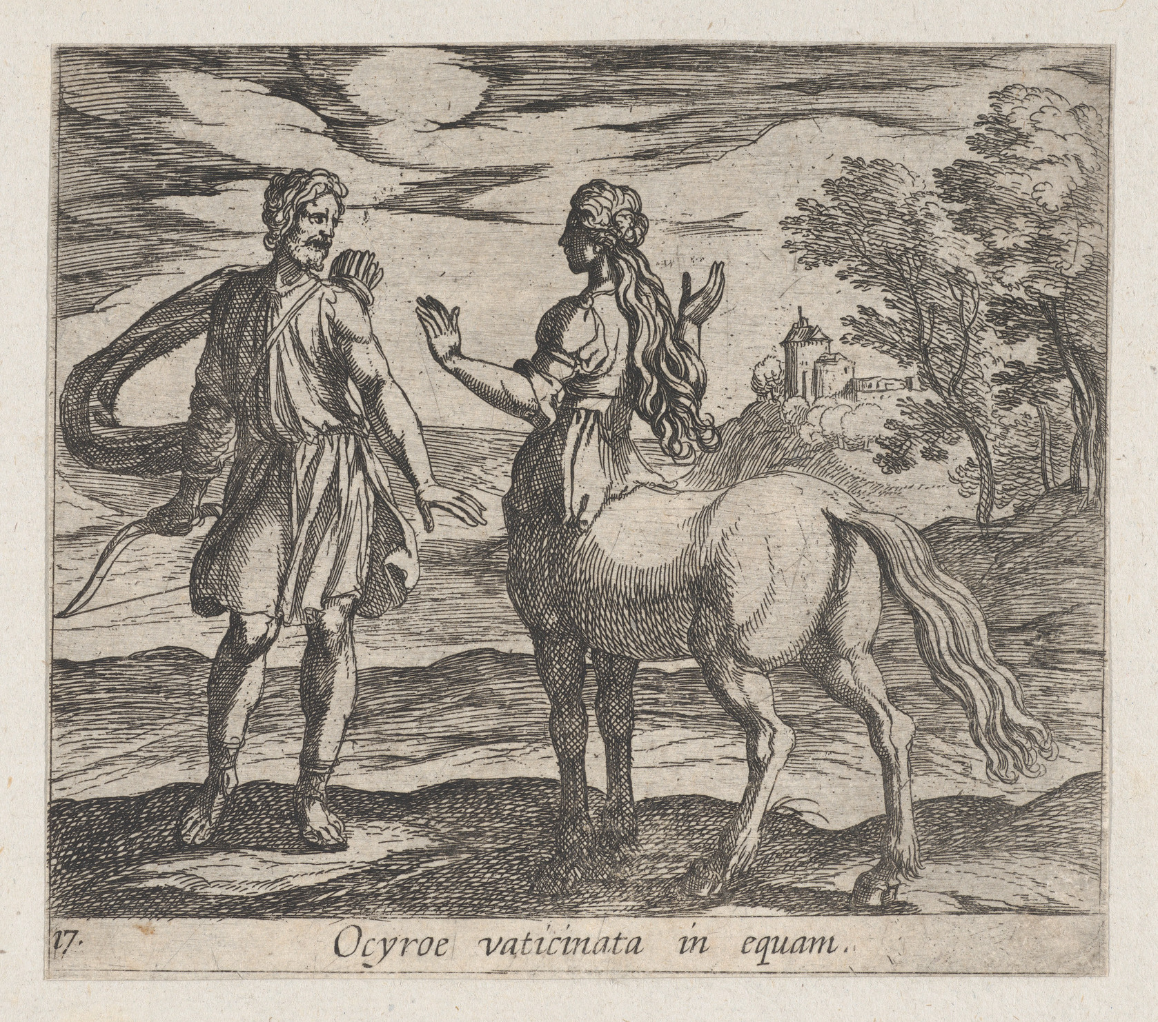 Print; Prints